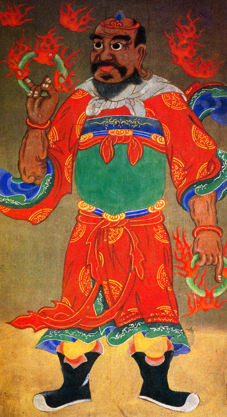 A nineteenth-century folk painting (minhwa) of Hwadeok-janggun, a shamanic god who uses fire to conquer evil. See more information here.